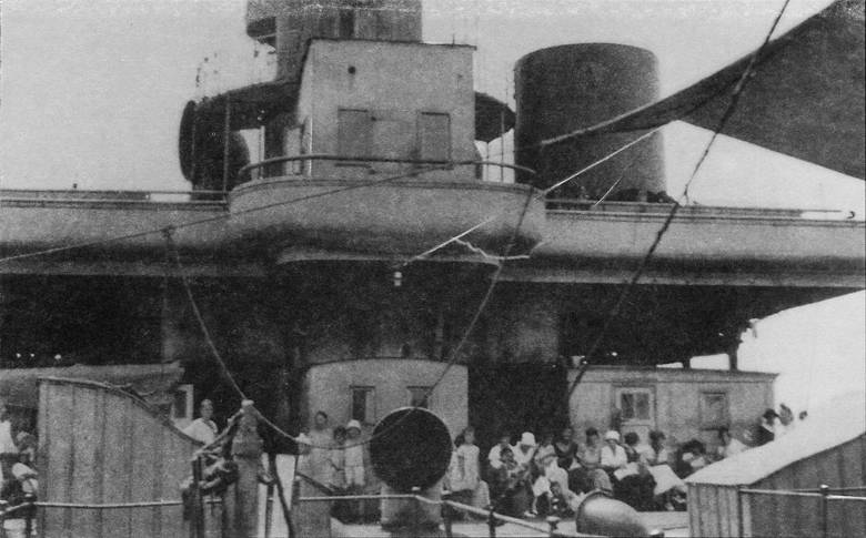 Russian Battleship Georgii Pobedonosets in Bizerte, 1923.